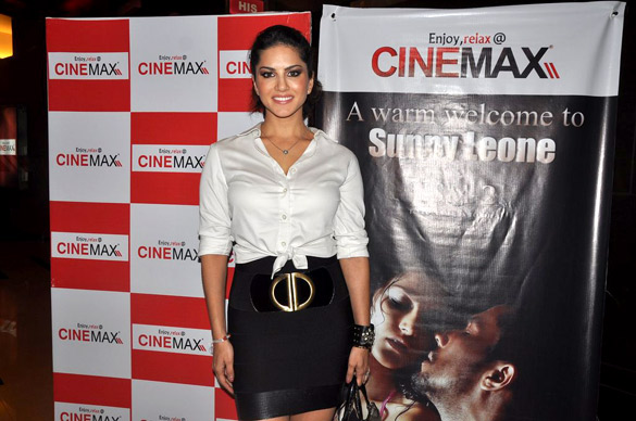 Sunny Leone promotes 'Jism - 2' at Cinemax